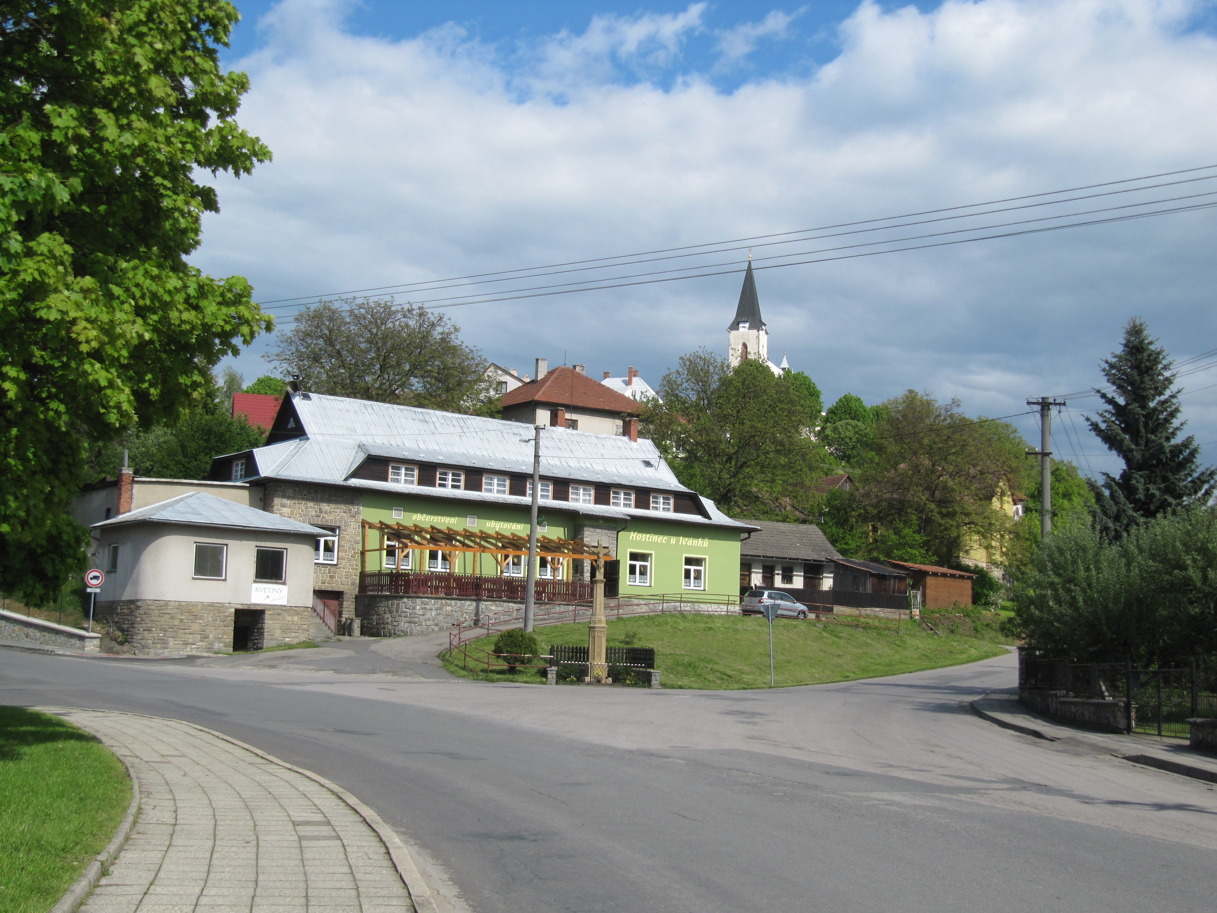 Nedašov, Zlín District, Czech Republic.